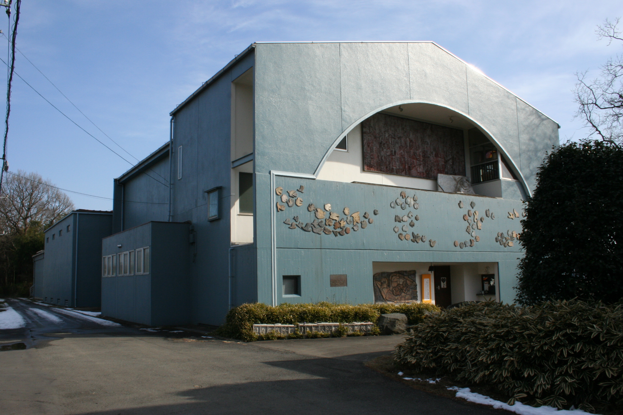 Maruki Museum for Pictures of Atomic Bomb, Higashimatsuyama-shi, Saitama, Japan